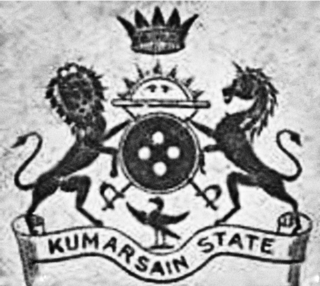 State Symbol used by the Ranas of princely state of Kumarsain.